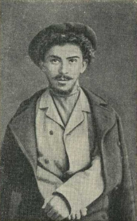 Young Kosta Khetagurov, the founder of the Ossetic literature